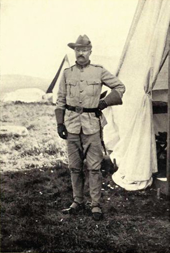 Portrait of Theodore Roosevelt in camp at Tampa, Florida as colonel of the Rough Riders, prior to embarking for Cuba.